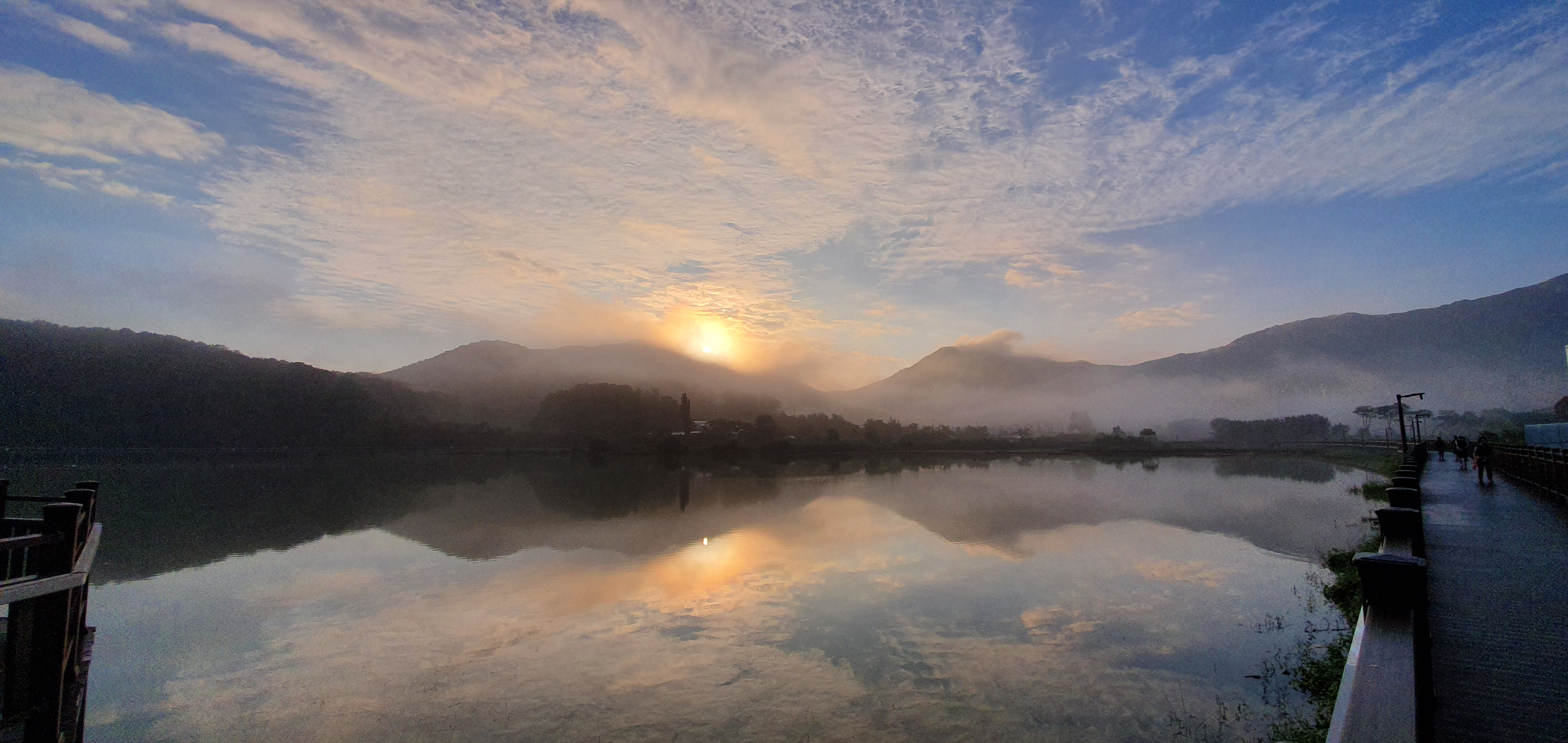 물안개 낀 백운호수 풍경